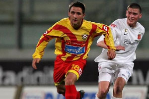 Picture of Shaun Bajada.